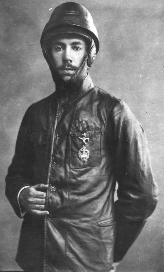 Young Igor Sikorsky. Portrait photograph by Karl Bulla